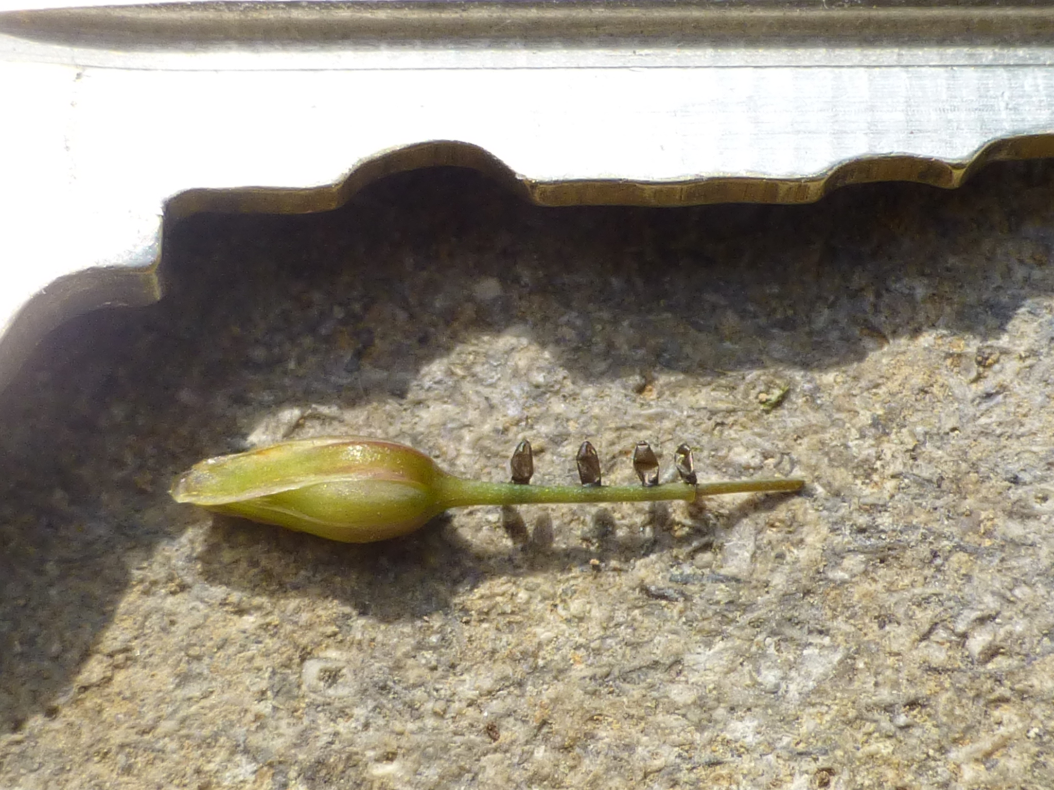 Eggs of asparagus beetle Crioceris asparagi on the stem of a flower of an asparagus plant. In this picture, the flower is torn off and put on a stone, with a standard house key next to it for scale. Seen in Bloomington, Indiana.